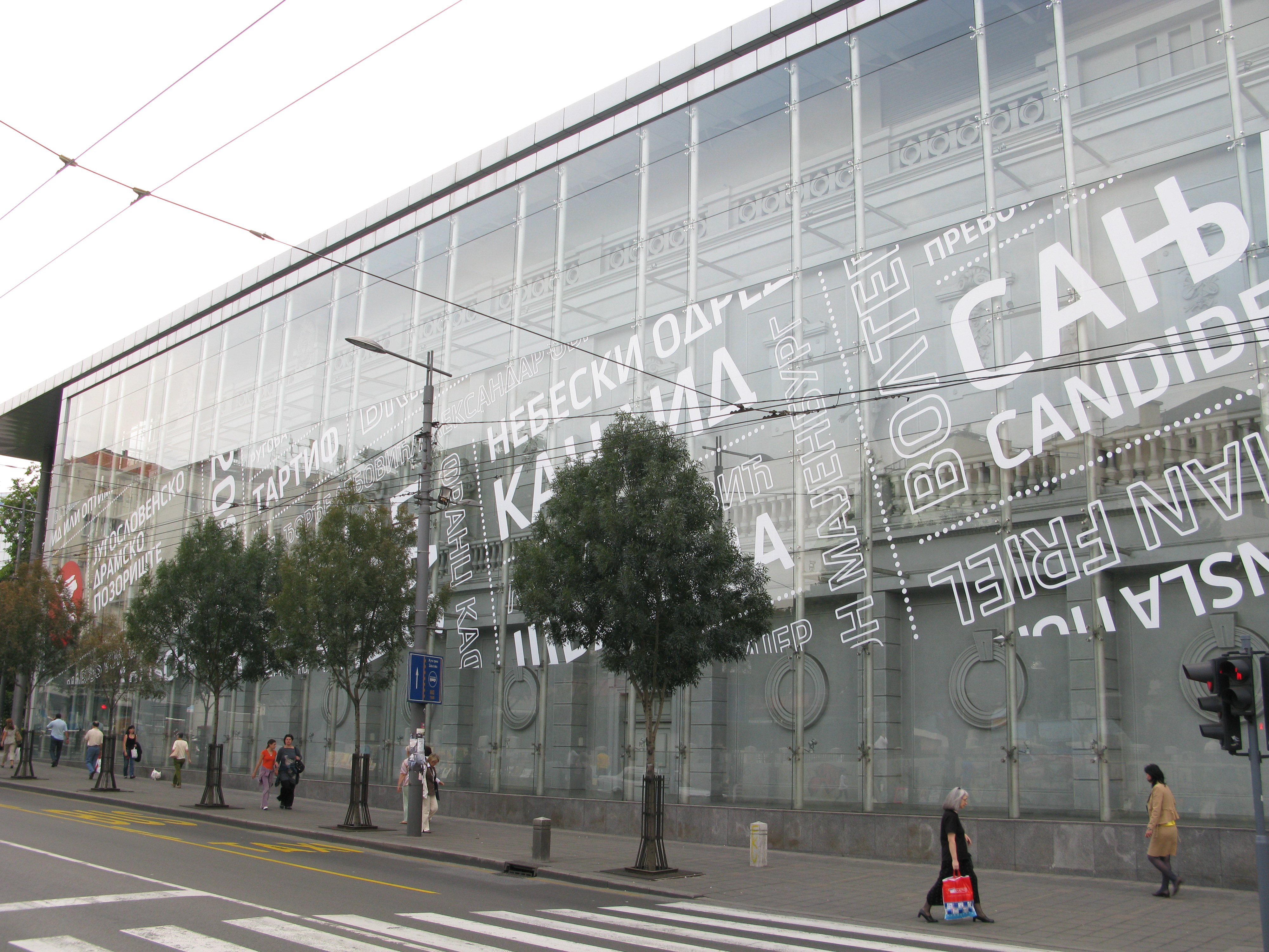 Yugoslav Drama Theater in Belgrade